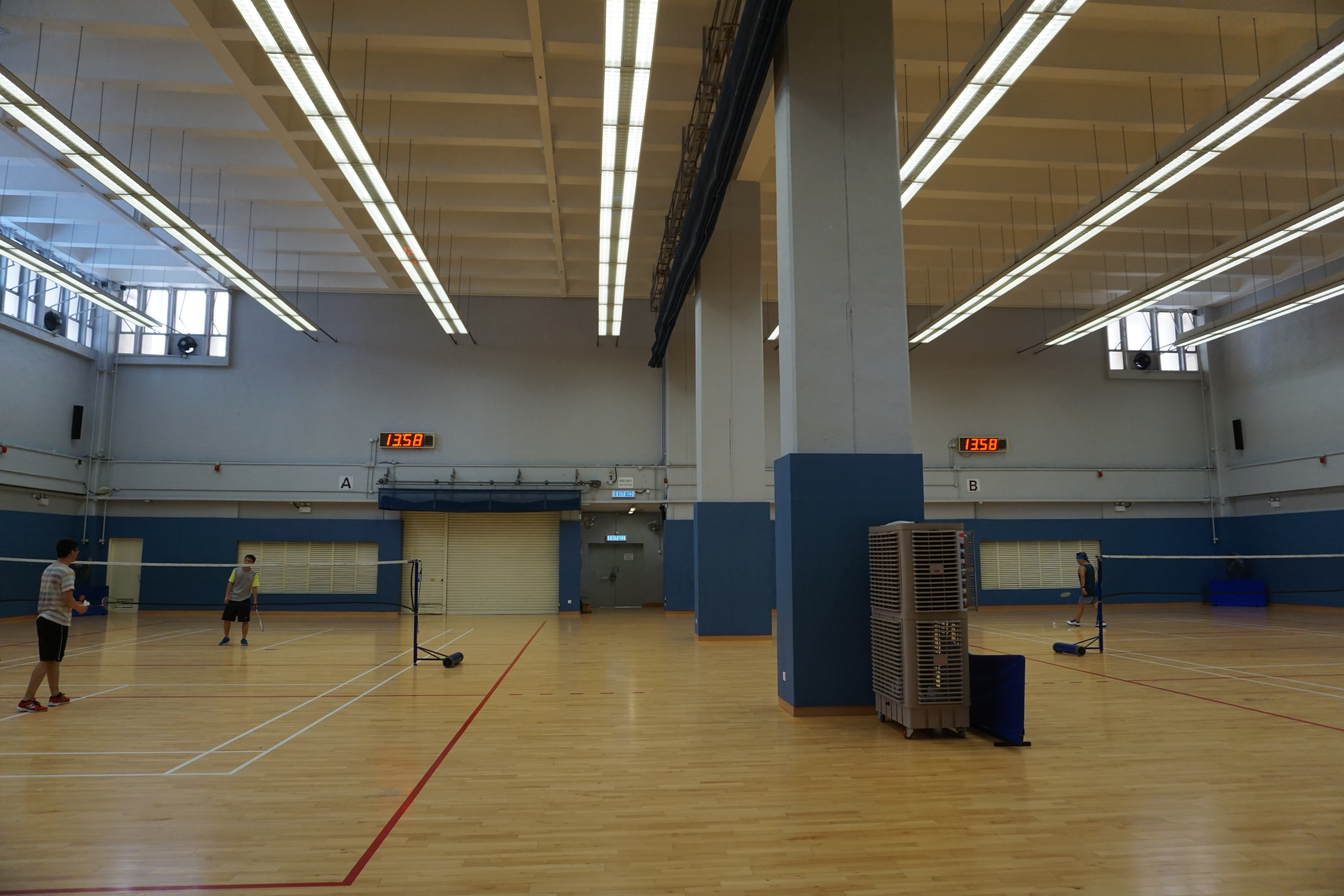 Tin Ping Sports Centre in Sheung Shui, Hong Kong.